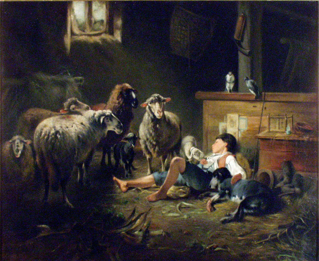 Shepherd Boy